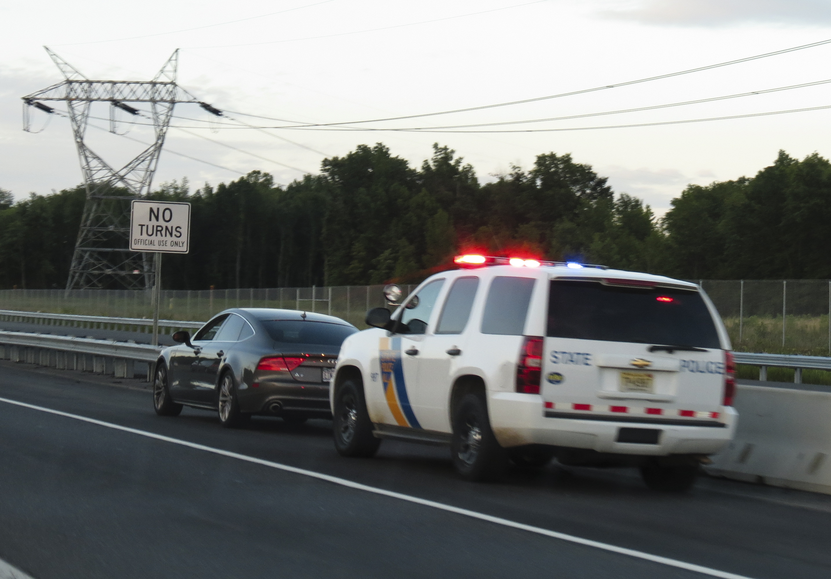 New Jersey State Police temporarily detain a driver, known as a "Terry stop."